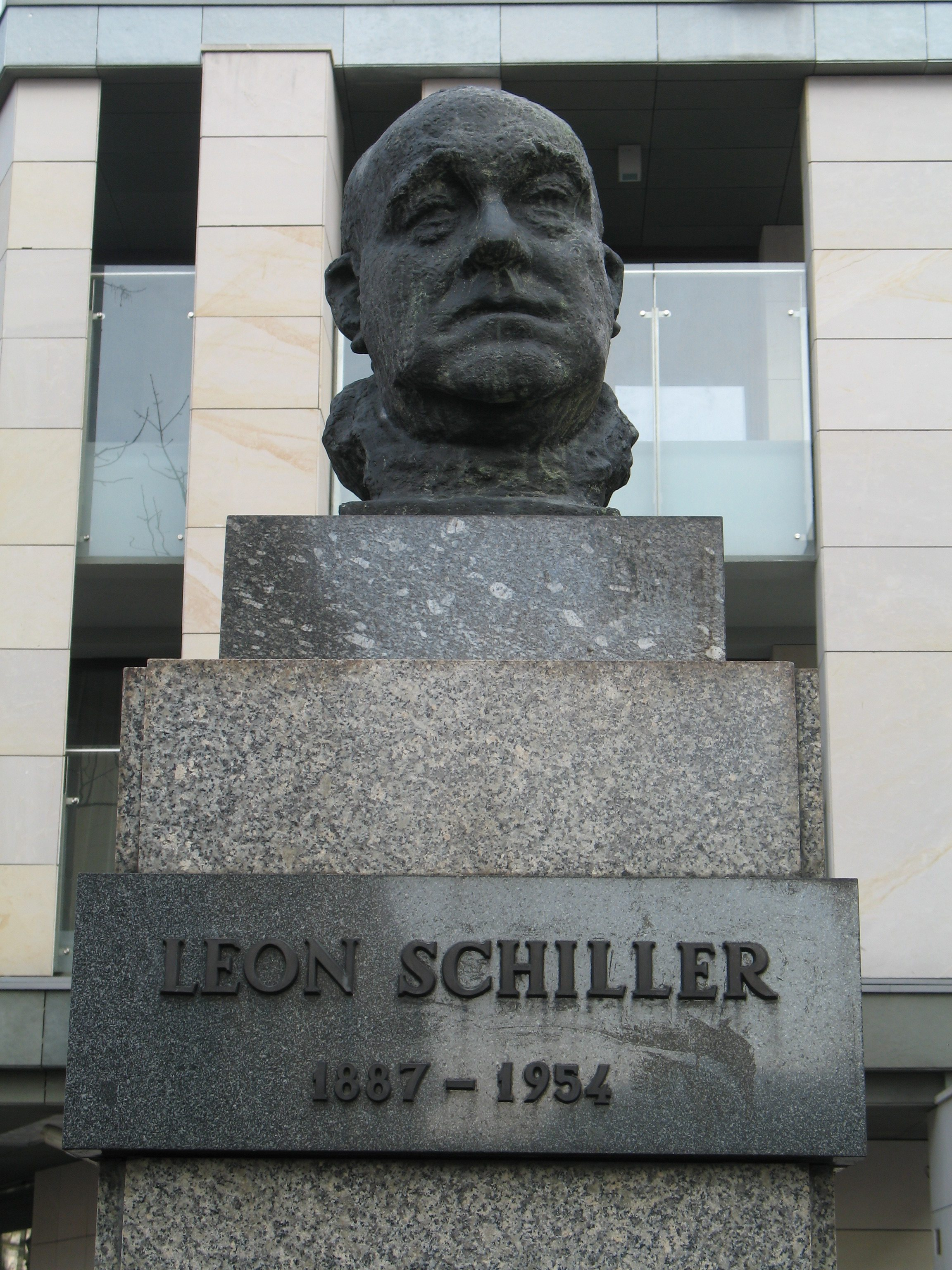 The Leon Schiller Monument next to the Polish Theatre in Warsaw, Poland